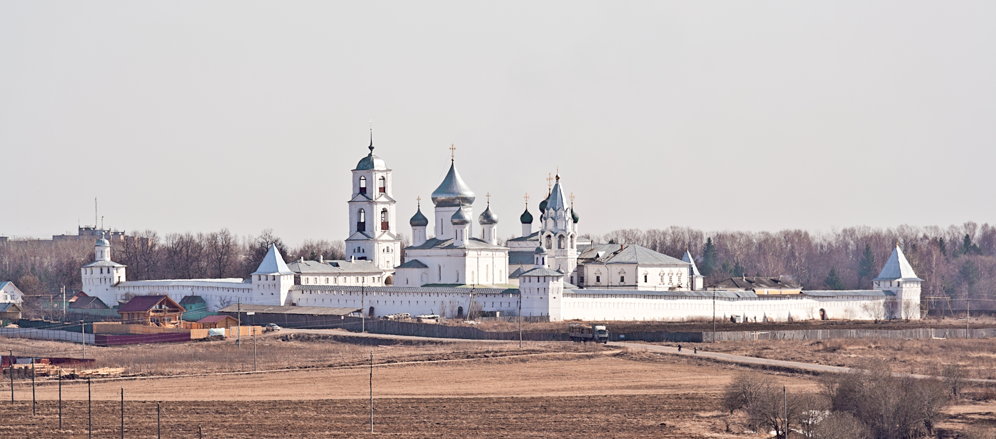 Nikitsky monastery close to Pereslavl town.